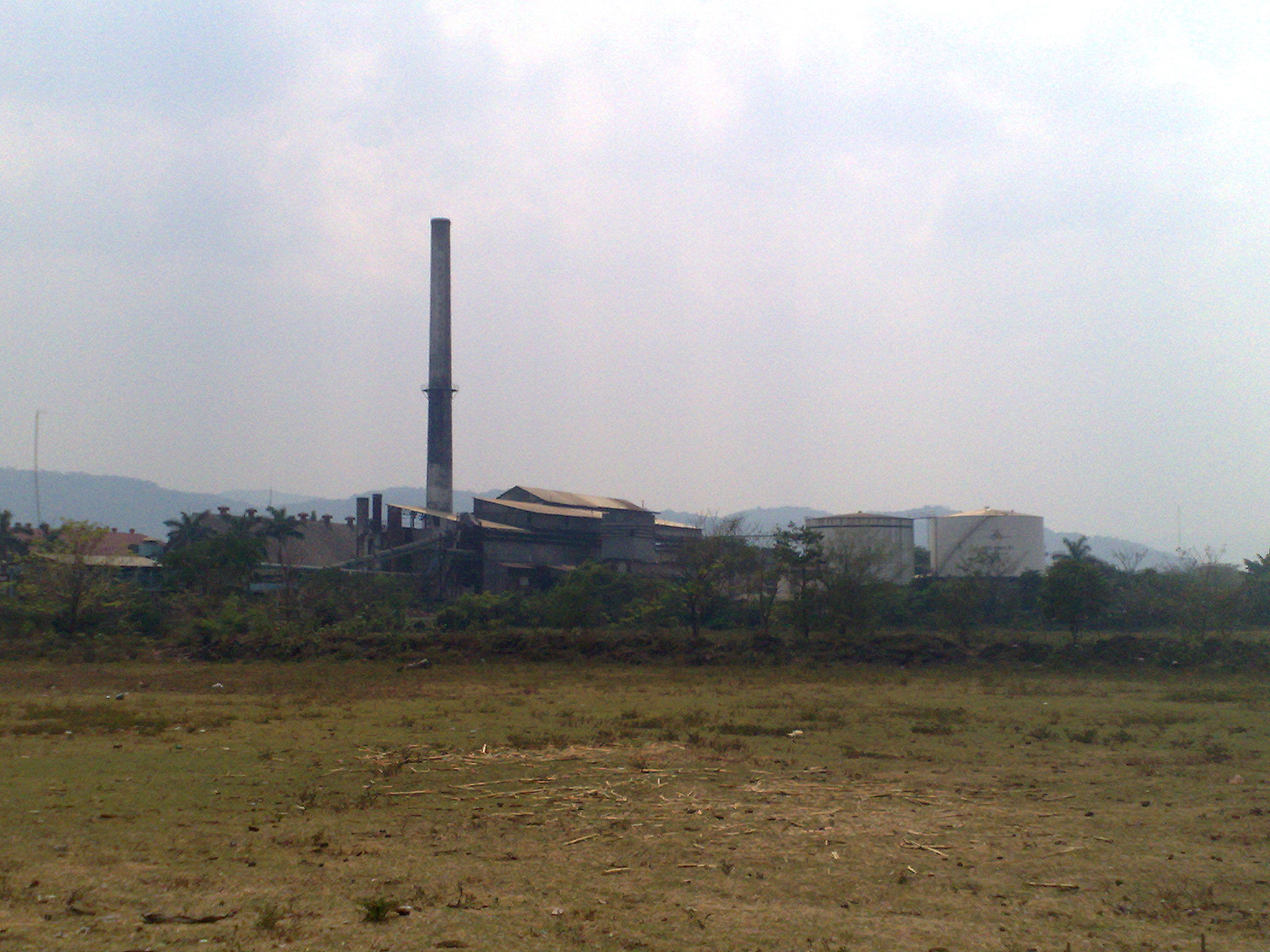 Ingenio Pablo Machado Ll. "La Margarita" located in Vicente Camalote, Acatlán de Pérez Figueroa, Oaxaca, México.